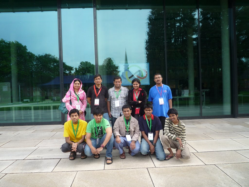 the Bangladesh team in the 50th IMO 2009, Bremen, Germany